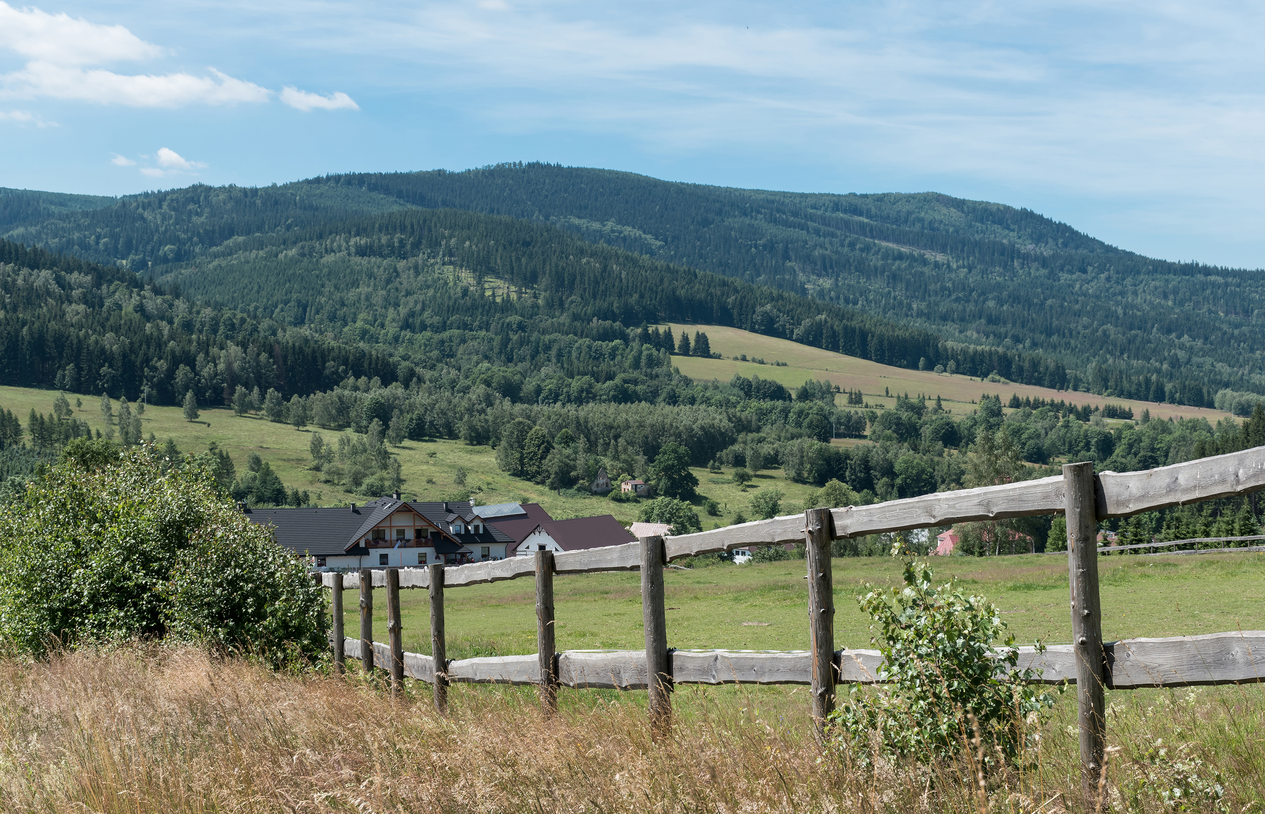 Gołogrzbiet (on the left) and Łysiec (on the right), Bialskie Mountains, Sudetes